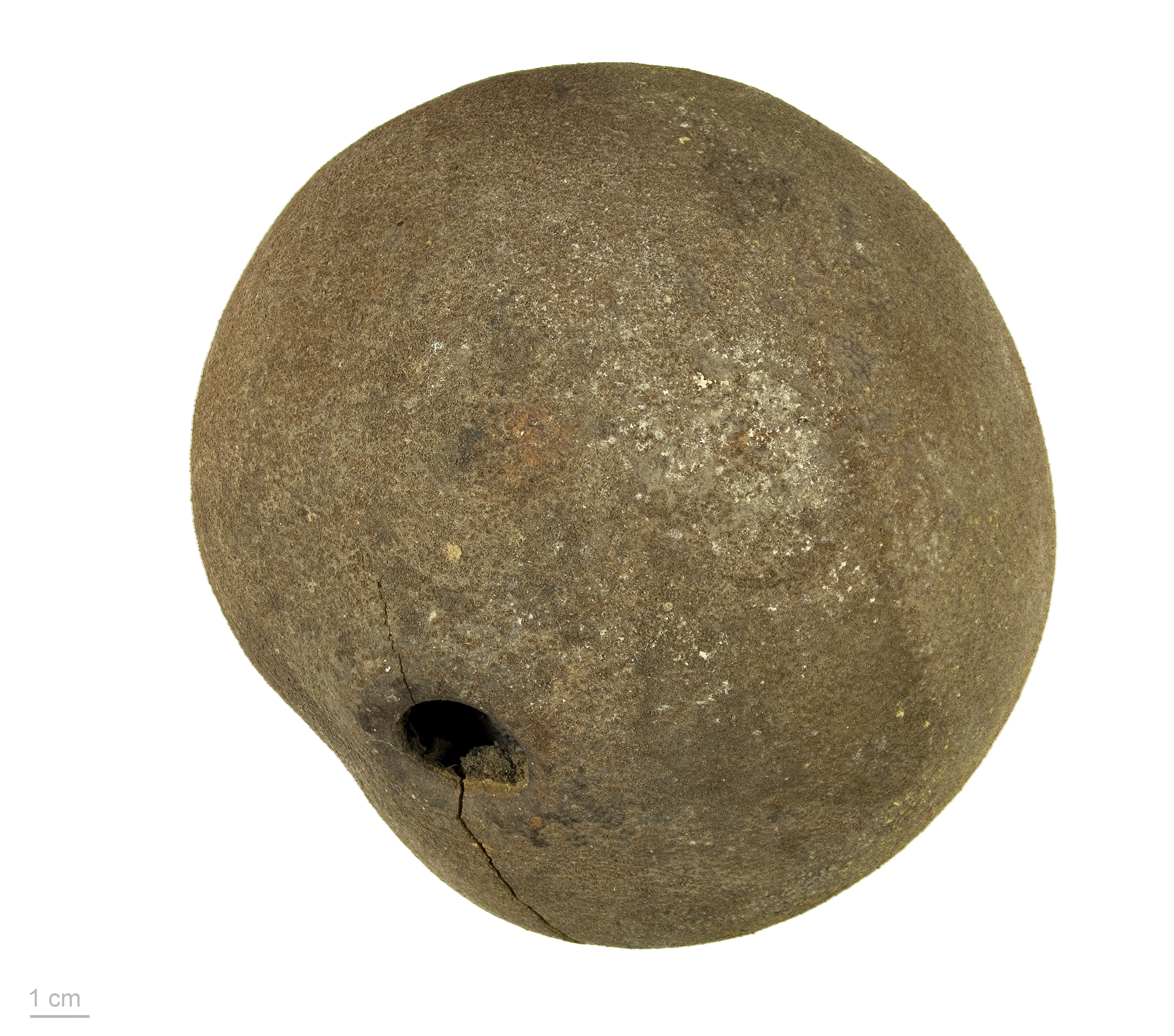 cannonball tree , fruits and seeds